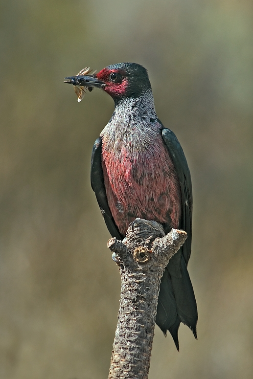 Lewis's Woodpecker in Oregon